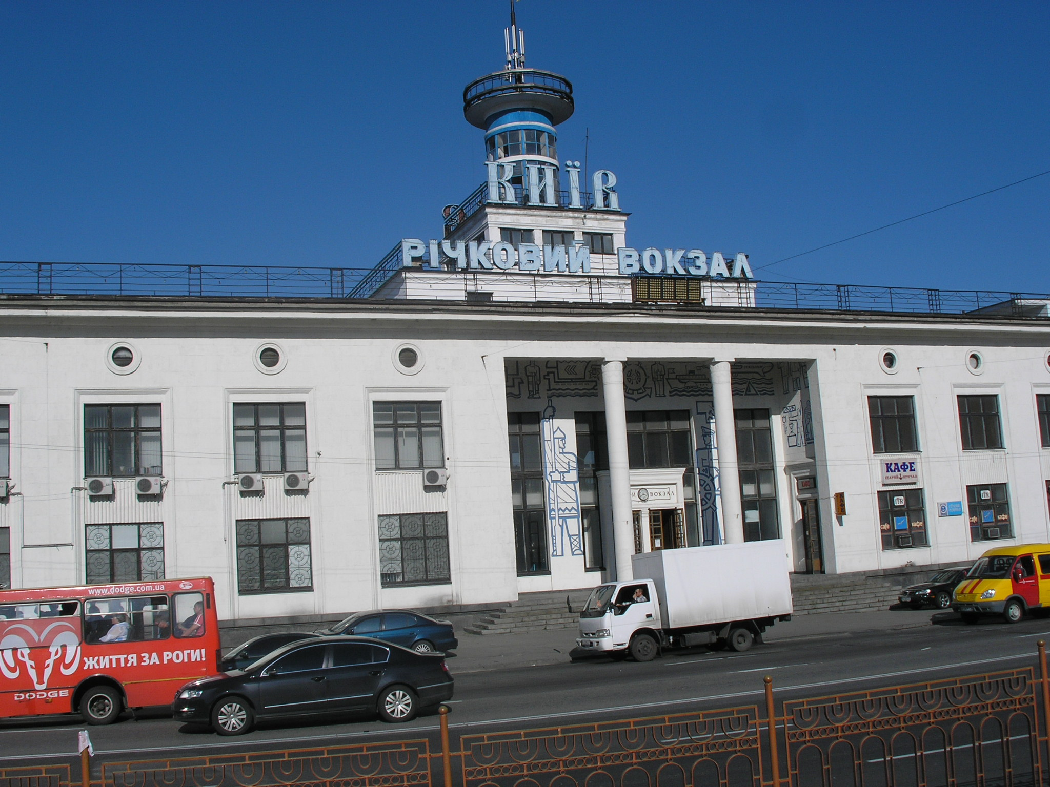 The Kiev River Port as seen from the Kiev tram in Kiev, the capital of Ukraine.